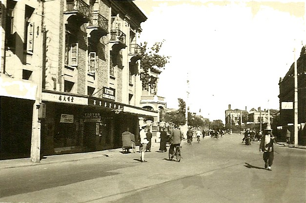 Meadours Road in Tianjin, now Tai'an Dao (泰安道) in Heping District